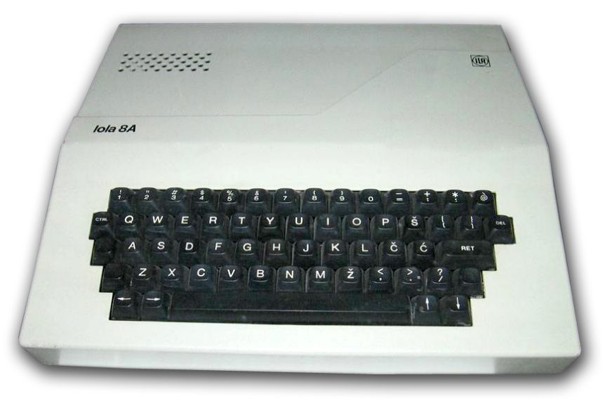 Picture shows Lola 8A computer. My brother photographed the computer and I edited the picture slightly. Picture taken at the exhibition of historical computers in Belgrade.